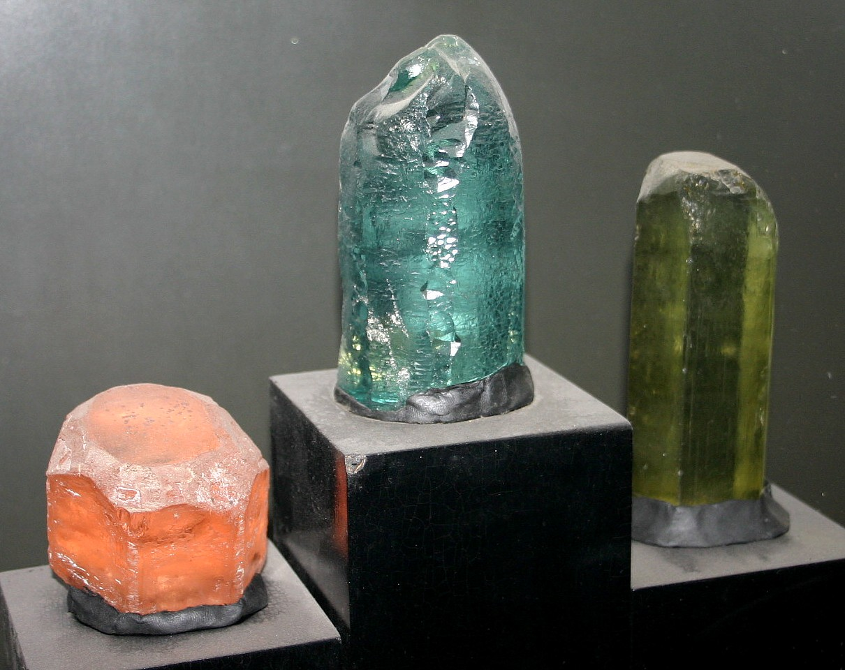 Source: Chris Ralph. This photo taken by Chris Ralph of [1], Photographer and author: photo taken by author.